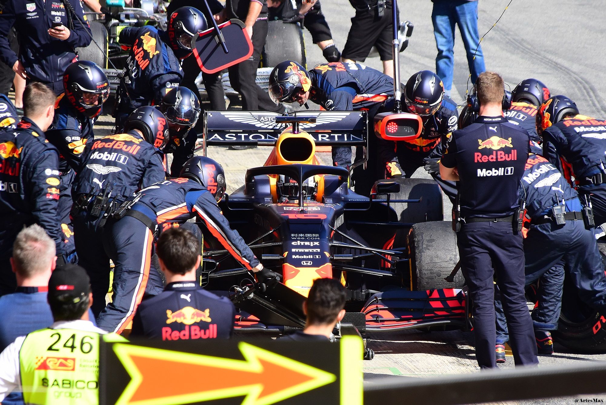 2019 Formula One tests Barcelona, Gasly.